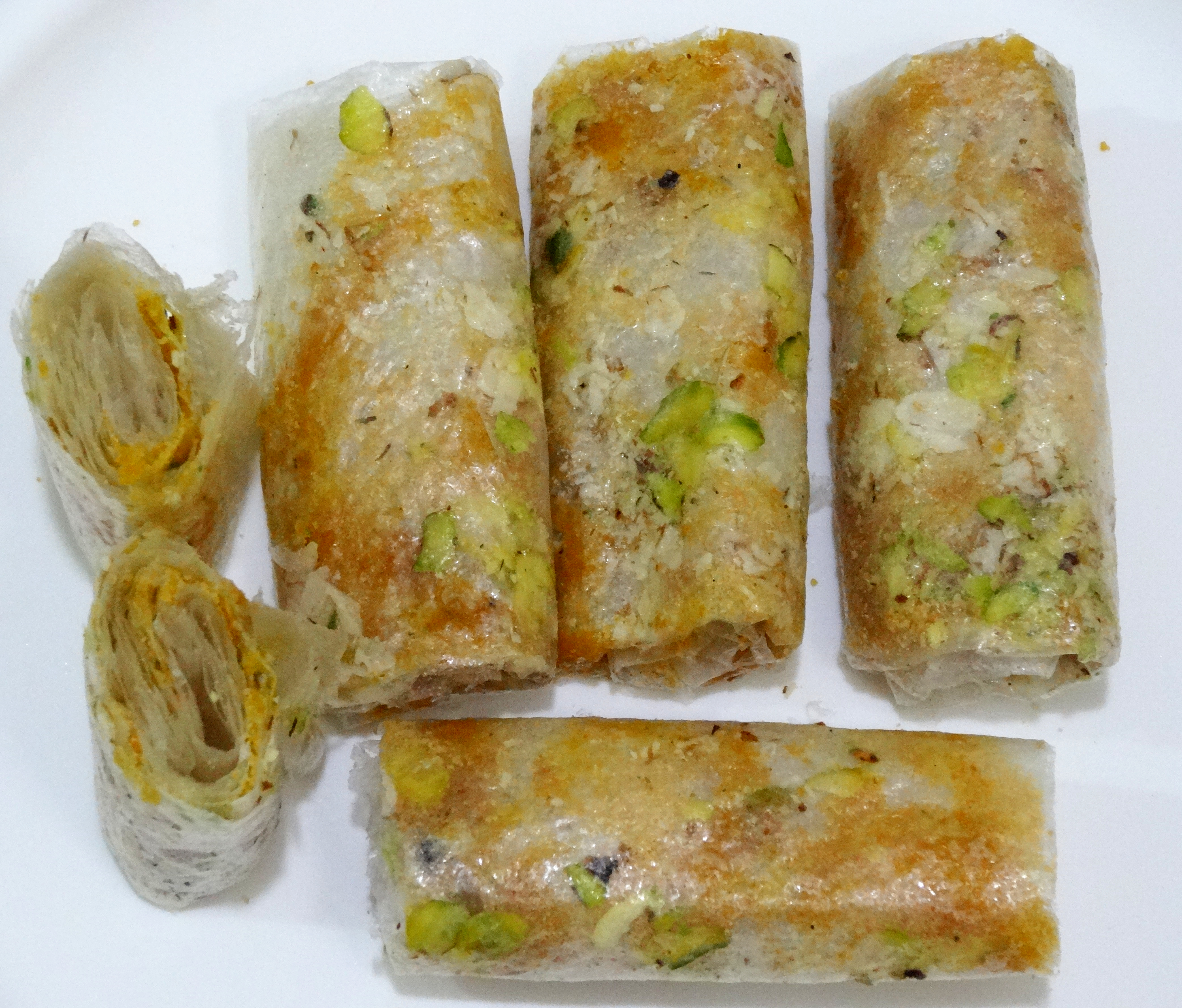 Pootharekulu or Poothareku (singular) is a popular sweet from Atreyapuram, East Godavari, India. The Pootharekulu in the picture is filled with jaggery, badam & pista